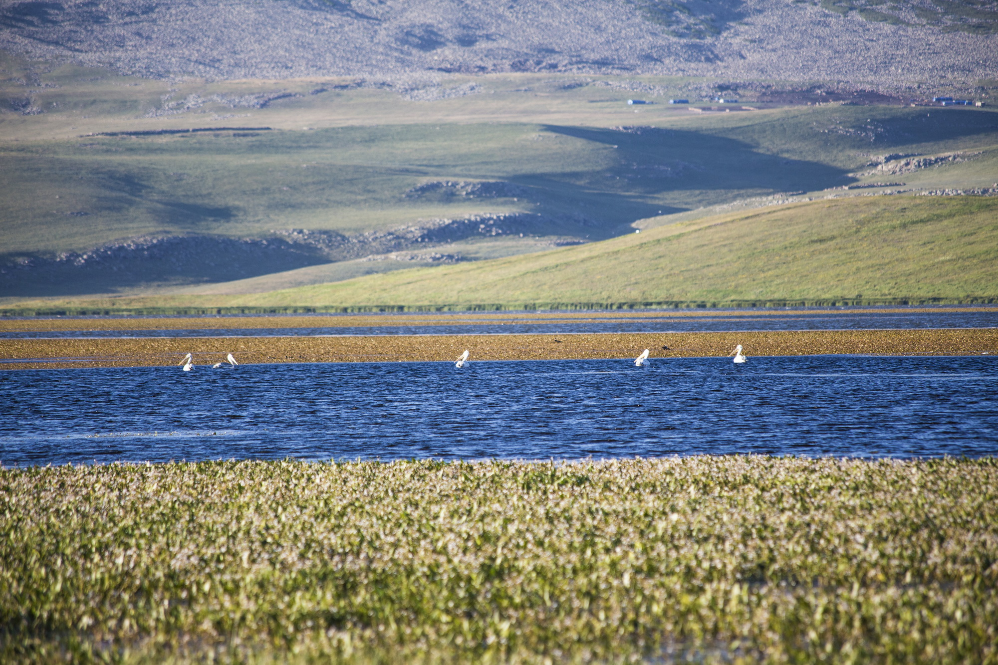 Javakheti Protected Areas was established in 2011. It includes Javakheti National Park, Kartsakhi Managed Reserve, Sulda Managed Reserve, Khanchali Managed Reserve, Bugdasheni Managed Reserve and Madatapa Managed Reserve. Javakheti Protected Areas include Municipalities of Akhalqalaqi and Ninotsminda. There are lots of lakes on Javakheti Plateau, including the biggest one – Lake Paravani. The highest point of Javakheti is Mount Great Abuli, with a height of 3,300 meters above sea level. Javakheti upland is the coldest places among settlements. It is characterized by dry continental climate, while the average annual temperature is quite low. In winter Javakheti lakes freeze for a long time